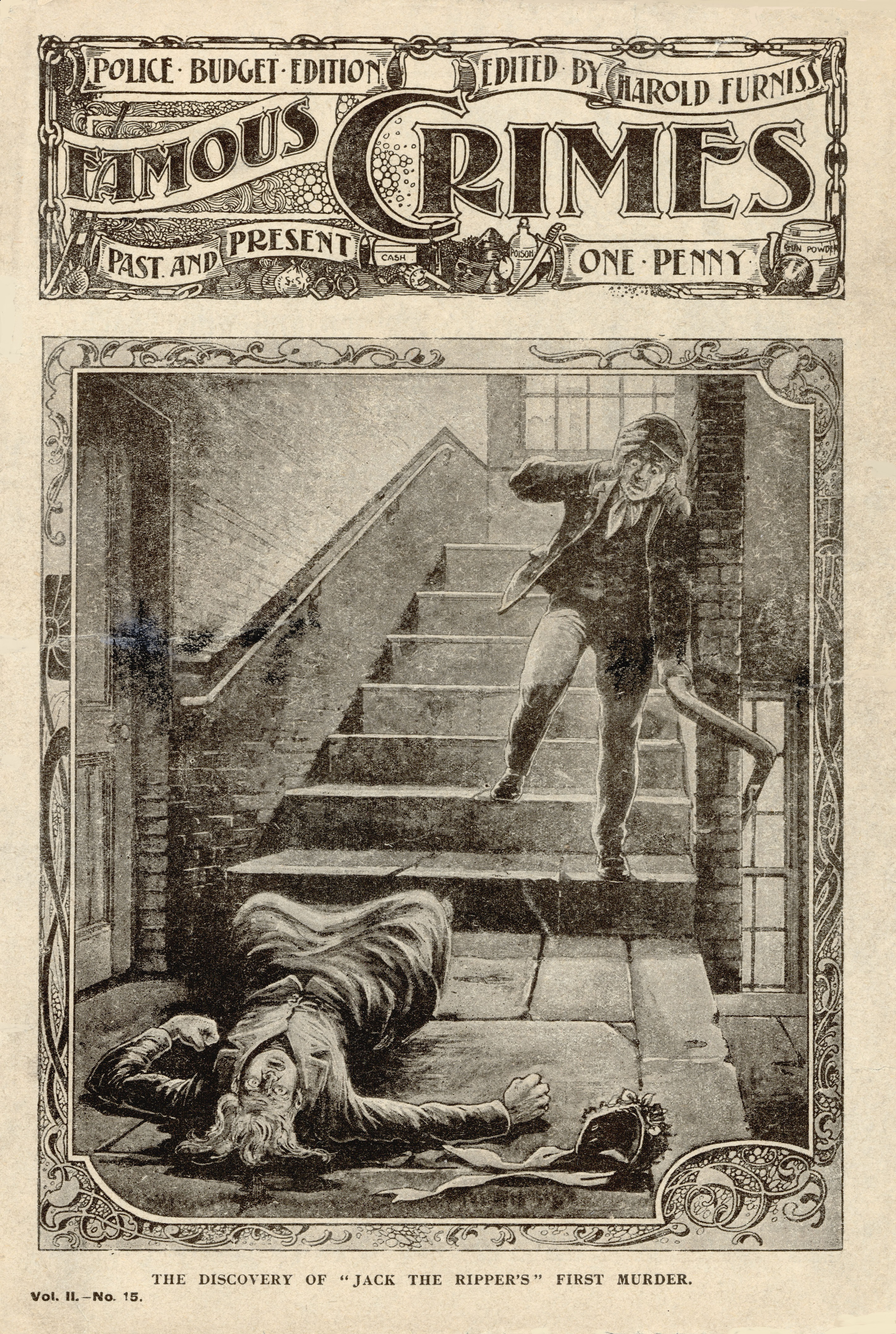 Famous Crimes, Past and Present: The Discovery of Jack the Ripper's first murder (c. 1903).